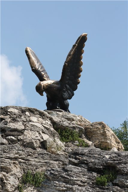 Big Eagle Sculpture in Pyatigorsk